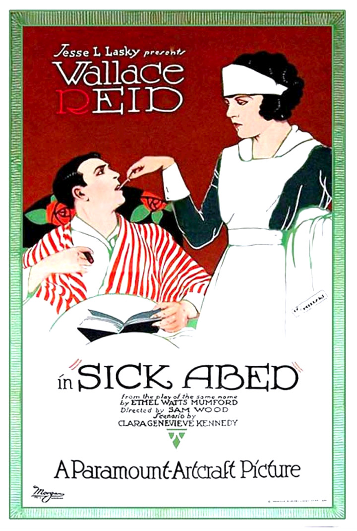 For article Sick AbedThis is a theatrical poster for the American comedy film Sick Abed (1920), and was first published before 1923.